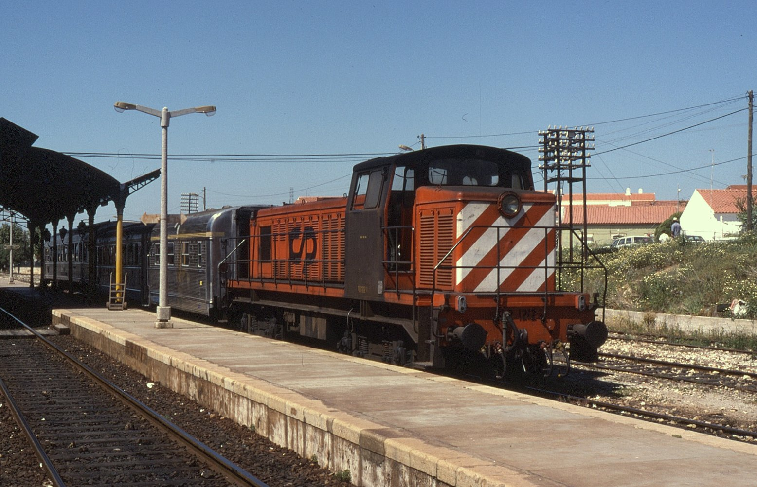 Seen at the junction station of Tunes on the Portuguese Algarve, Alstholm built class 1200 loco no. 1212 has arrived on train 5803, 13:30 from Lagos. Photo taken on 10 April 1999.